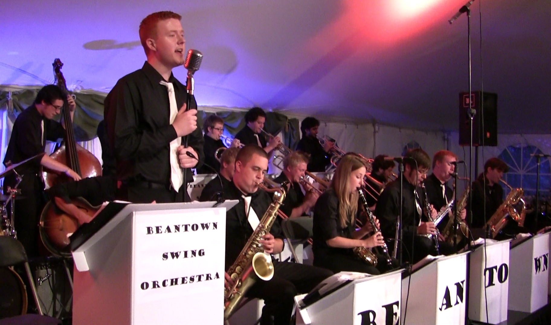 Beantown Swing Orchestra with vocalist John Stevens performing at Brattleboro Retreat's 175th anniversary celebration.